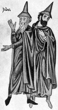 German Jews of the thirteenth century. From Herrad von Landsperg, Luftgarten. Published in the en:1901-en:1906 Jewish Encyclopedia, now in the public domain.